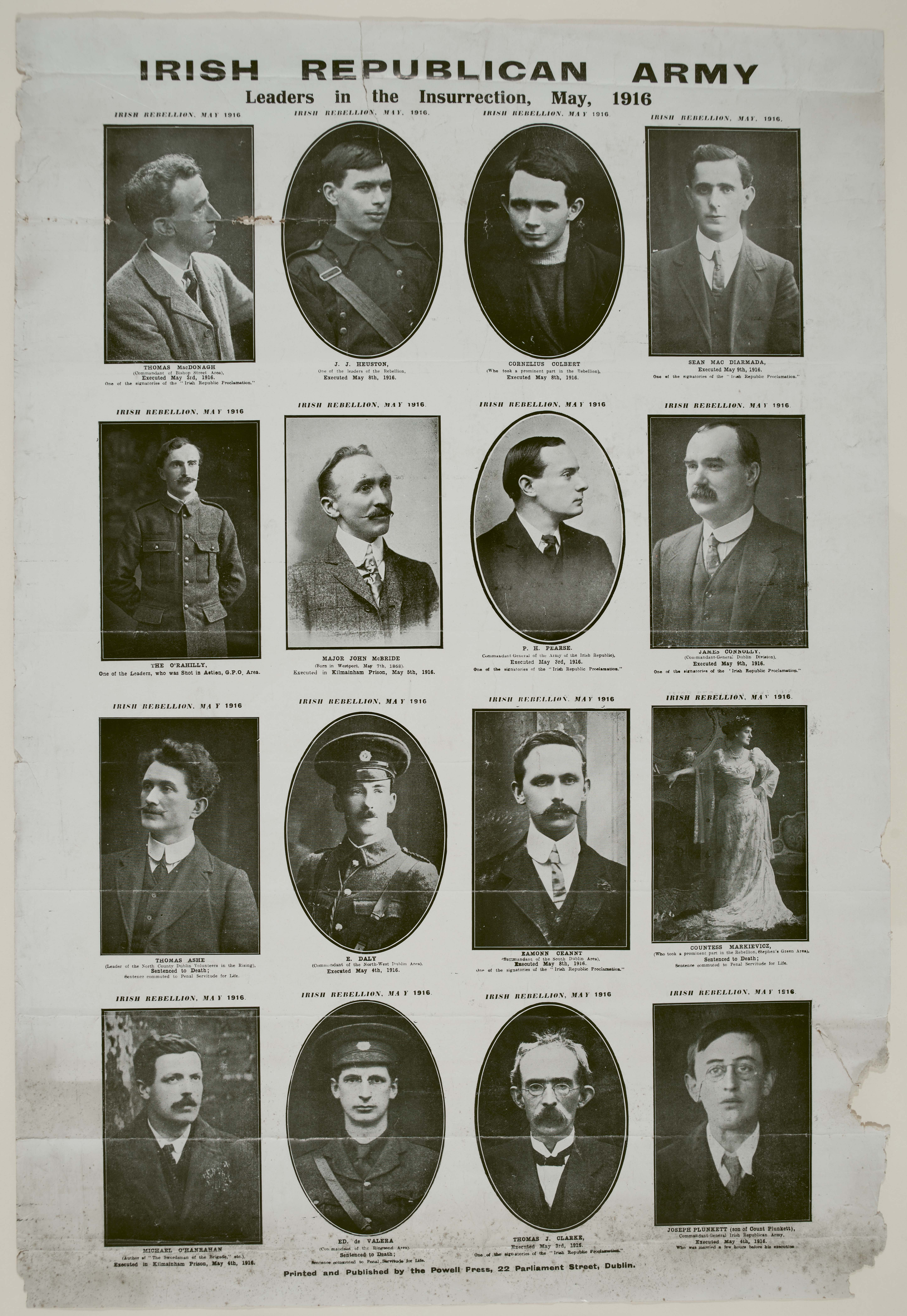 1916 IRISH REPUBLICAN ARMY, LEADERS OF THE INSURRECTION, POWELL PRESS POSTER.